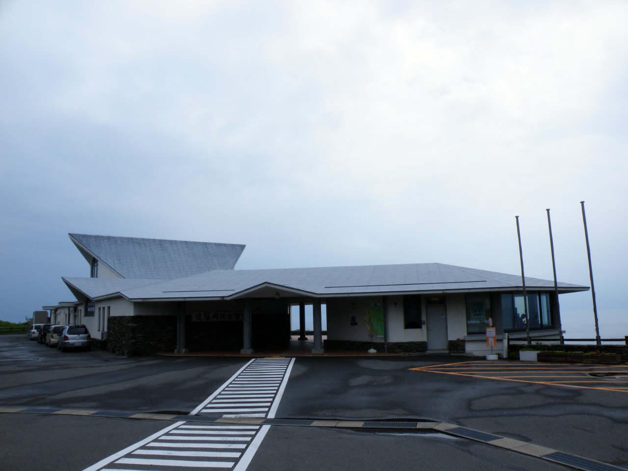 Shusaku_Endo_Literary_Museum(Sotome,Nagasaki City,Nagasaki Prefecture)